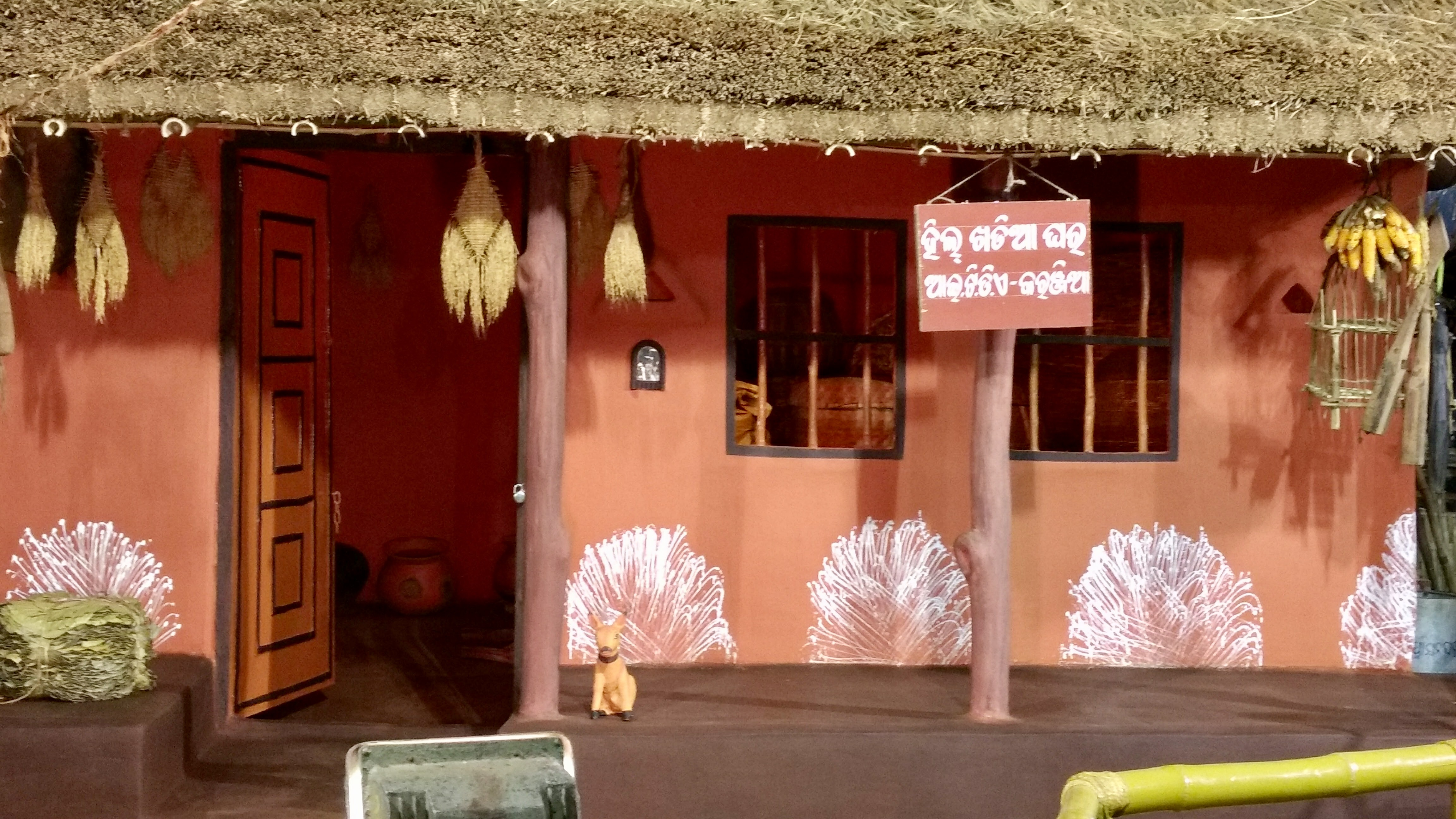 A typical house of tribals of the Bathudi community from Odisha. Image from the Adivasi Mela at Bhubaneswar. ଓଡ଼ିଆ: ଓଡ଼ିଶାର ହିଲ ଖଡ଼ିଆ ଆଦିବାସୀଙ୍କ ଘର । ଭୁବନେଶ୍ୱରର ଆଦିବାସୀ ମେଳାରେ ଏହି ଫଟୋ ଉଠାଯାଇଥିଲା ।